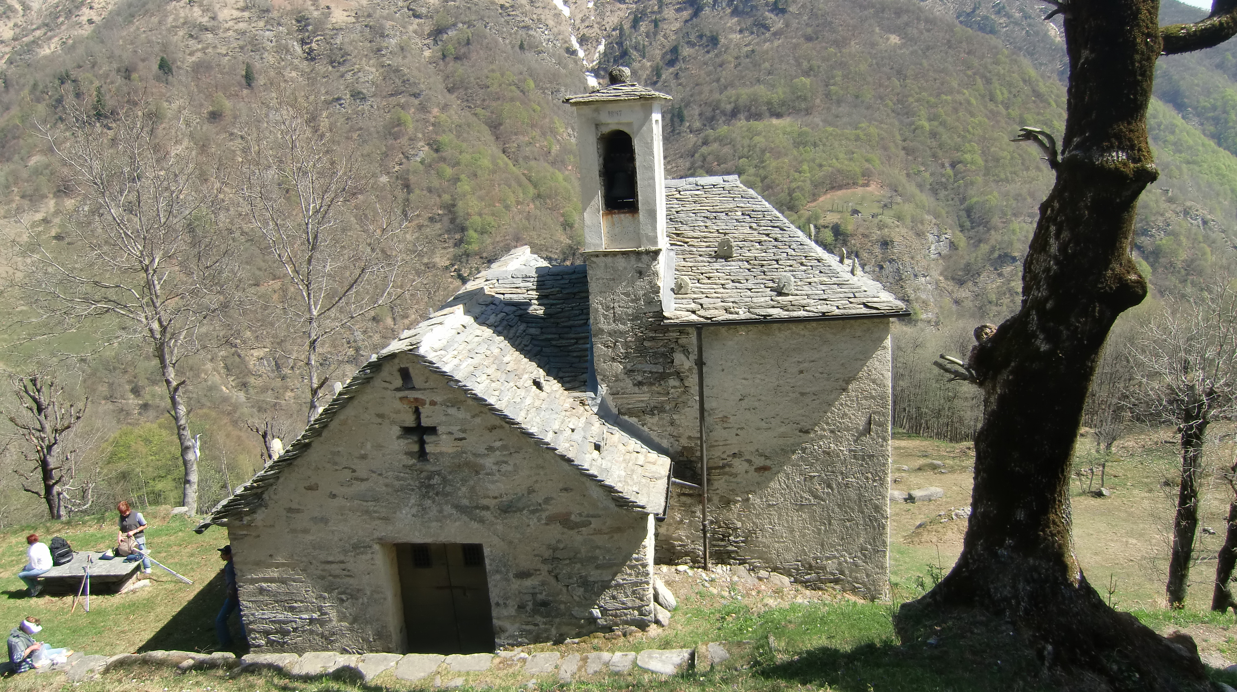 Oratory dedicated to Saint Lawrence, Alpe Seccio, Boccioleto (Italy)